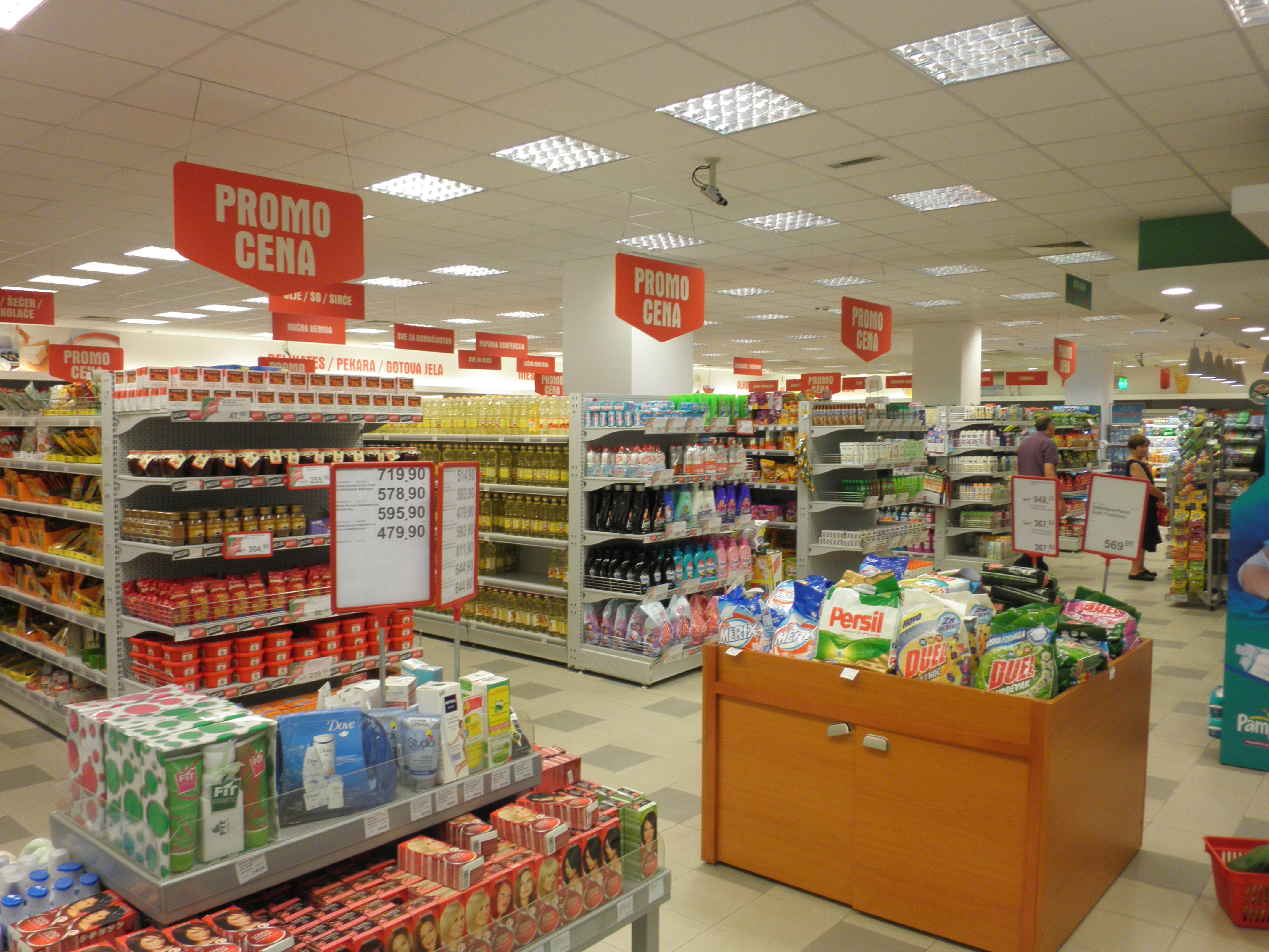 Interior of Maxi supermarket in Niš, Serbia. This store was opened in the 1990s as C market, closed in the early 2000s, renovated, rebranded and reopened as Maxi in 2008.